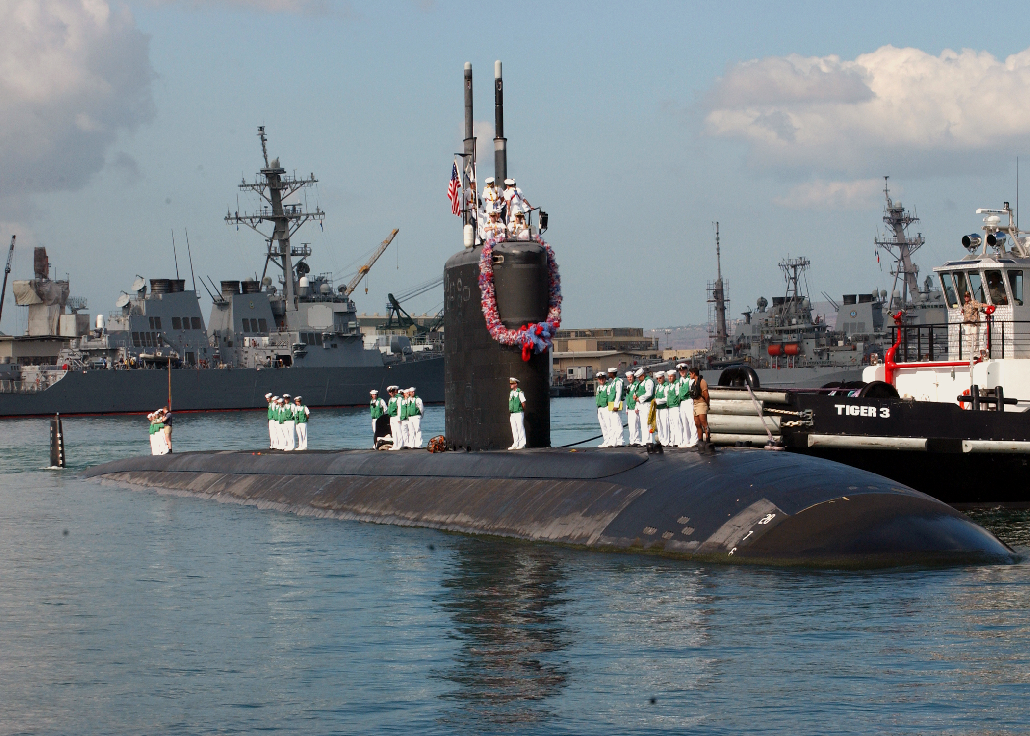 Pearl Harbor, Hawaii (Oct. 31, 2003) -- USS Pasadena (SSN 752) returns to her homeport of Pearl Harbor, Hawaii, following an eight-month deployment to the Western Pacific. U.S. Navy photo by Photographer's Mate Airman Benjamin D. Glass. (RELEASED)